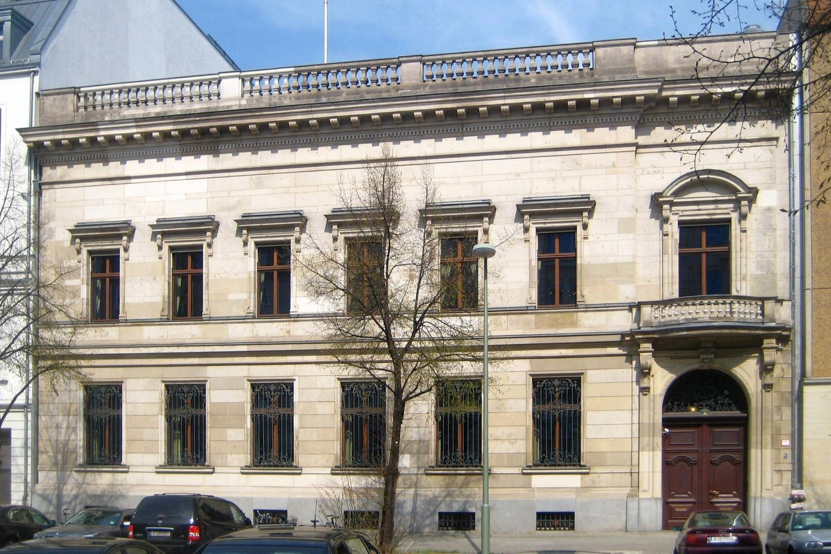 Former building of the banking house Mendelssohn at Jägerstraße No. 49-50, now called "Apothekerhaus" and seat of the Federal Union of German Pharmacists. The building was constructed from 1891 to 1893 to a design by the architects Heino Schmieden and Rudolf Speer. It has been dedicated as a historic landmark.